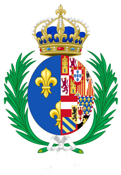 Arms of Anne of Austria (between 1643 and 1666), queen and regent. To improve if necessary.